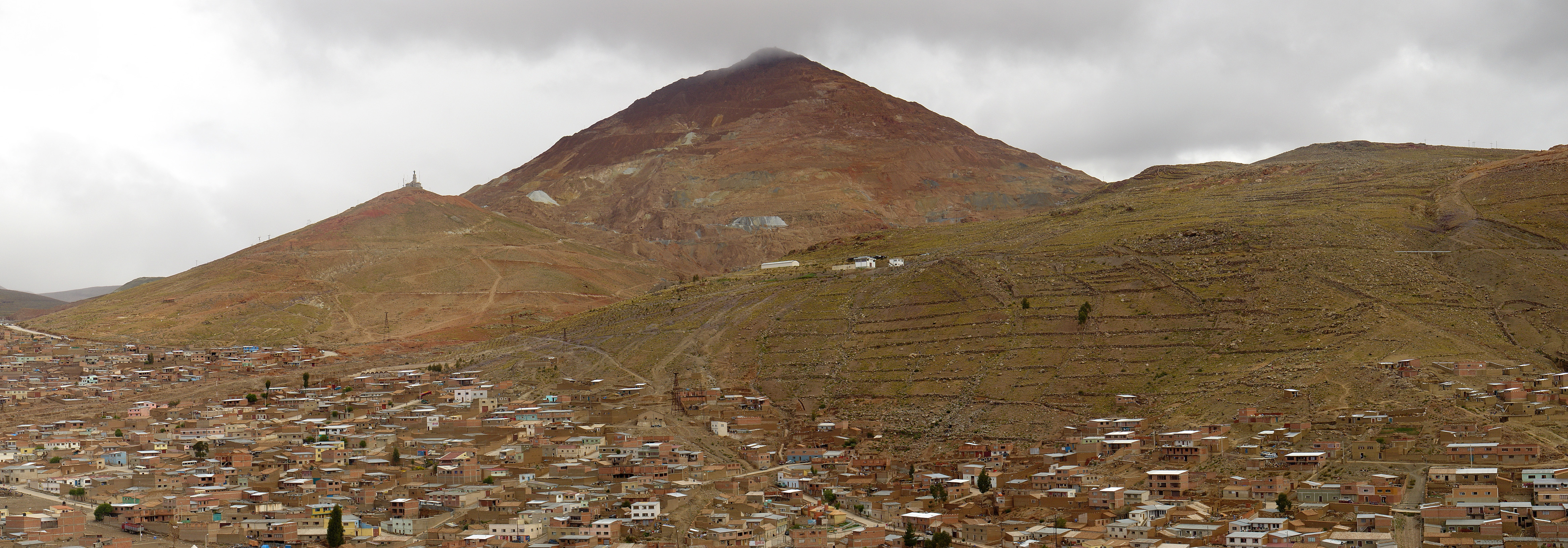 Please, have this description accessible to all by translating it in different languages.